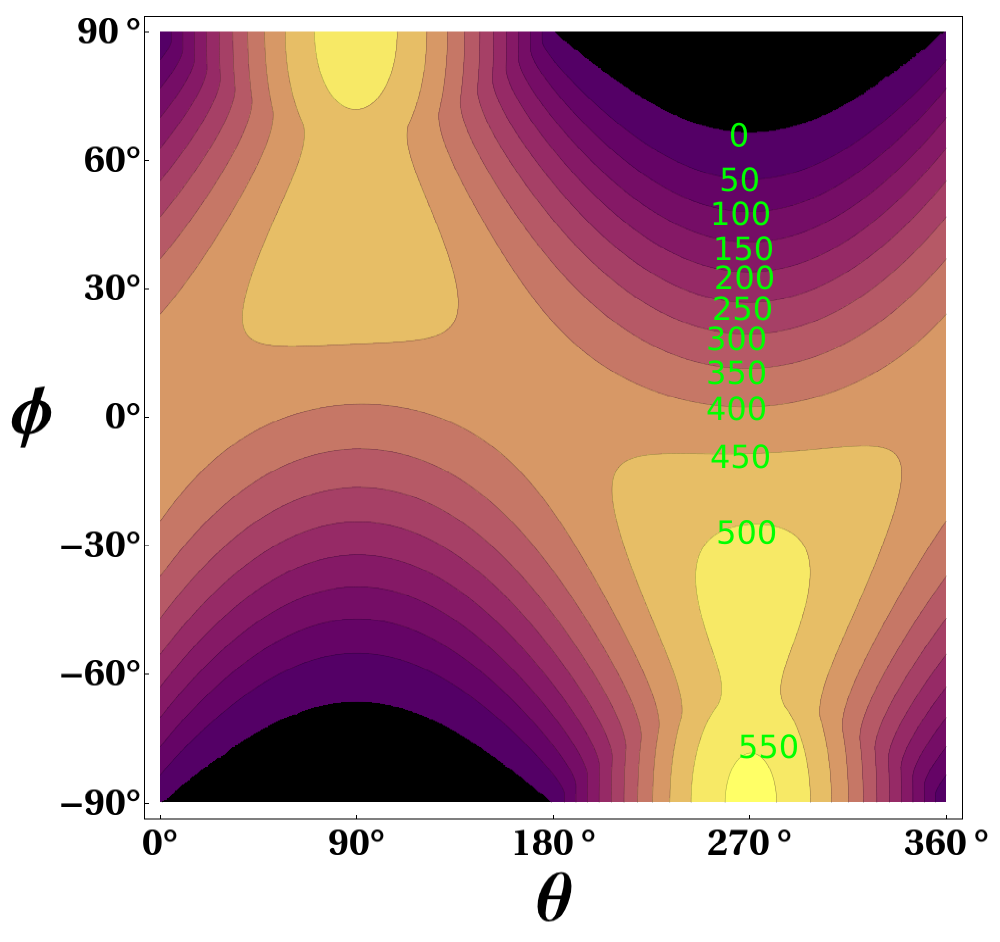 Theoretical insolation at the top of the atmosphere, assuming a solar constant of 1367 W/m^2 when Earth is at its "average" radius, obliquity of 23.4398 degrees, longitude of perihelion of 282.895 degrees, eccentricity of .016704.